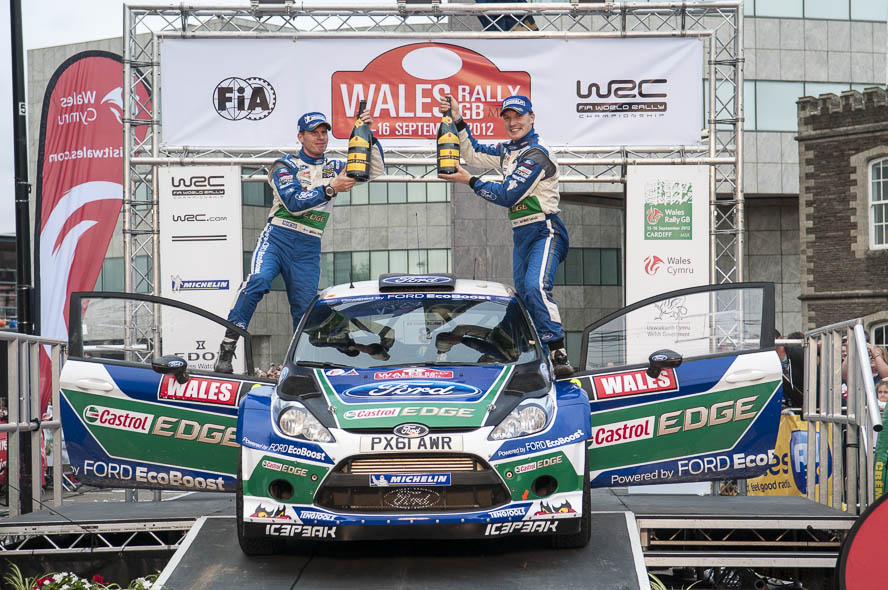 Wales Rally Great Britain 2012 Ford Fiesta RS WRC,Ford WRT,Ford World Rally Team,Jari-Matti Latvala,Miikka Anttila,Motorsport,Podium,Rally,Rallye,Siegerehrung,WRC,Wales Rally GB, 1.Platz